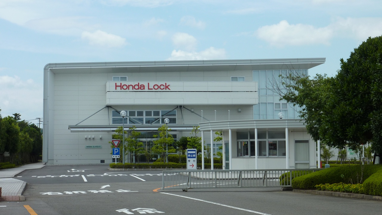 Honda Lock (Sadowara, Miyazaki City, Japan)